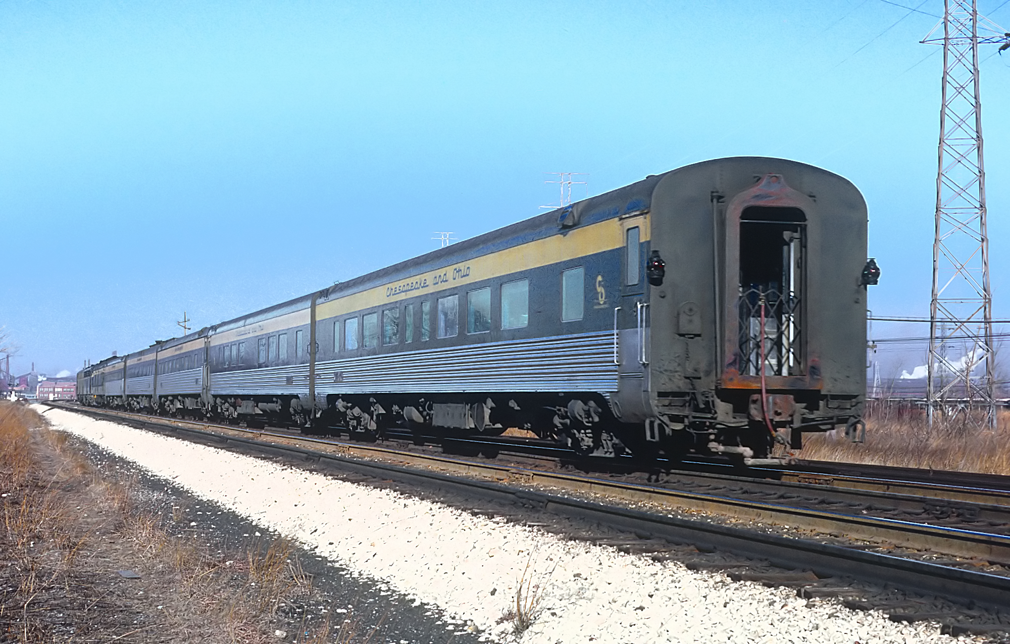 A Roger Puta Photograph